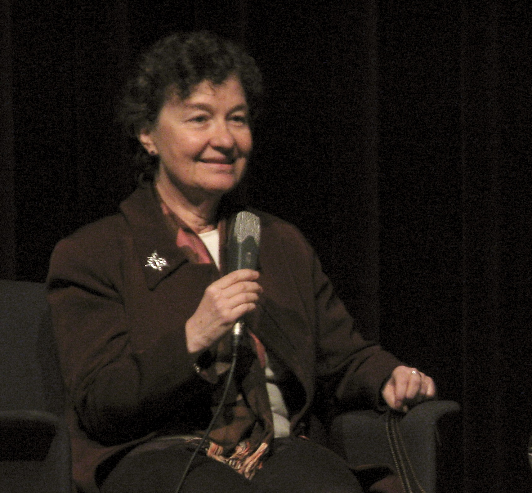 Maria Barbal (* 1949, Tremp, Pallars Jussà) is a successful Catalan writer.